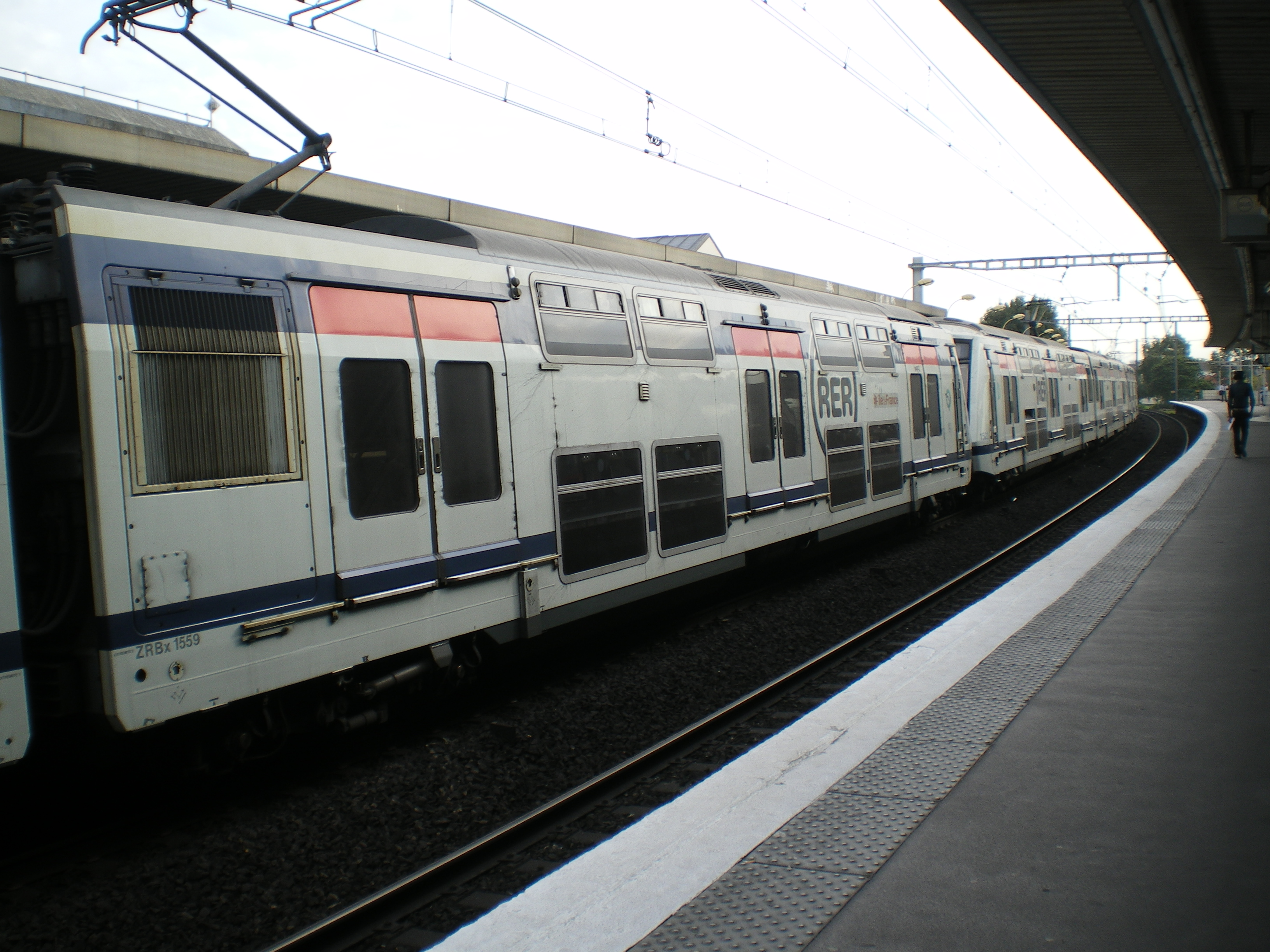 "RER" train at Saint Maur - Créteil station.